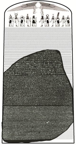 Illustration of the Rosetta Stone and the missing portions of the stele that it was originally part of. Derived from descriptions from experts and similar illustrations appearing in books, including the following: Ray, John. The Rosetta Stone and Rebirth of Ancient Egypt p. 2. Profile Books Ltd. 2008 ISBN 978-186197-339-9 Parkinson, Richard. Cracking Codes: The Rosetta Stone and Decipherment p. 26 University of California Press. 1999 ISBN 0-520-22248-2 Budge, Ernest Alfred Wallis. The Decrees of Memphis and Canopus. Volume 3: The Decree of Canopus p. 35. Elibron Classics. 2005 ISBN 1-4021-9494-6 Invalid ISBN Includes an image from Wikimedia Commons of the Rosetta Stone File:Rosetta Stone BW.jpeg, and several SVG images of Egyptian gods and goddesses from User:Jeff Dahl.